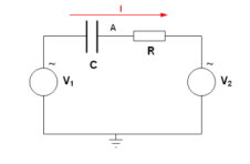 Capacitor and resistance in series between two AC sources. 2006